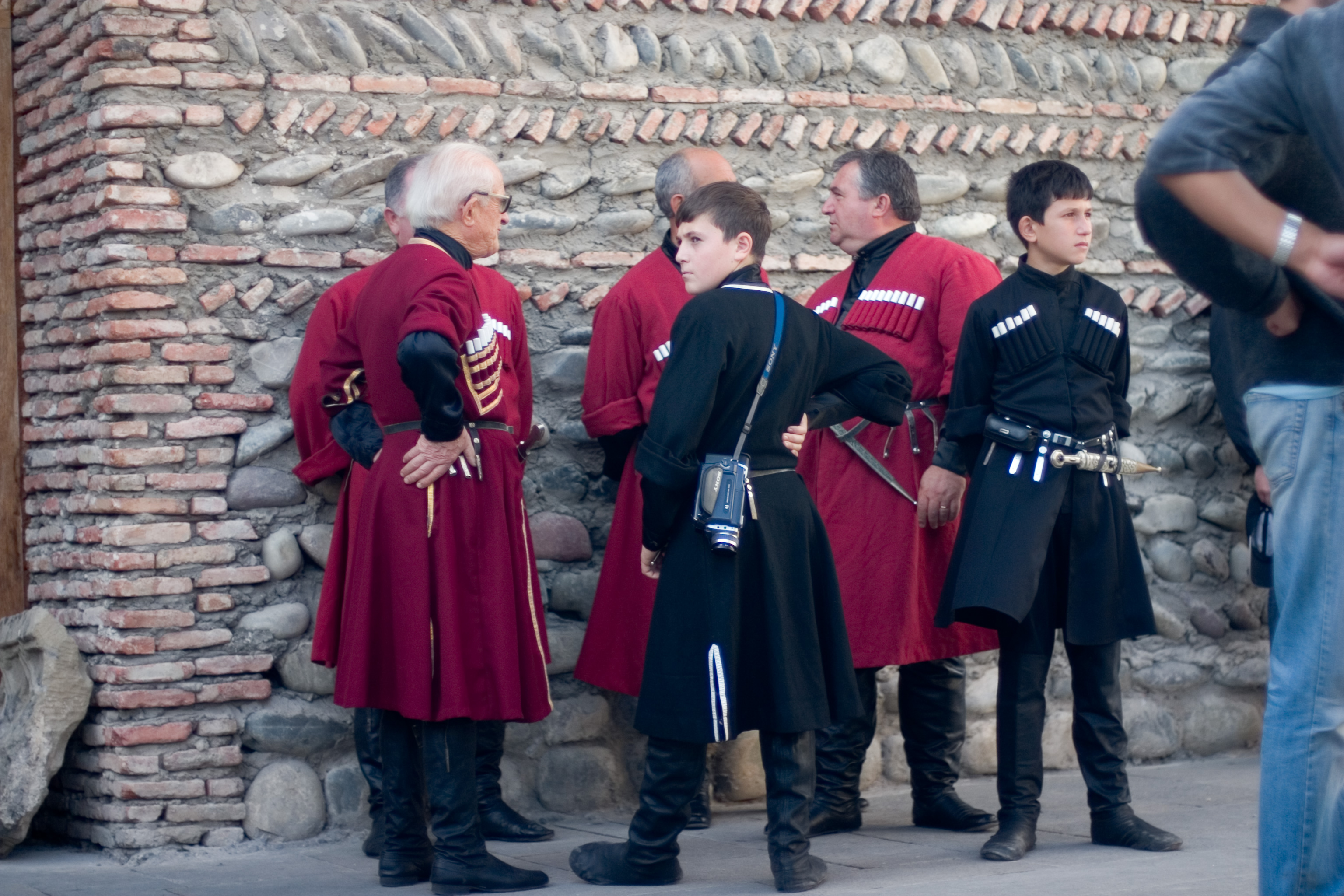 traditional dress, Georgia